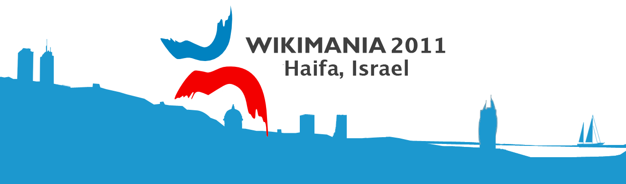 The official logo of Wikimania 2011 Haifa.